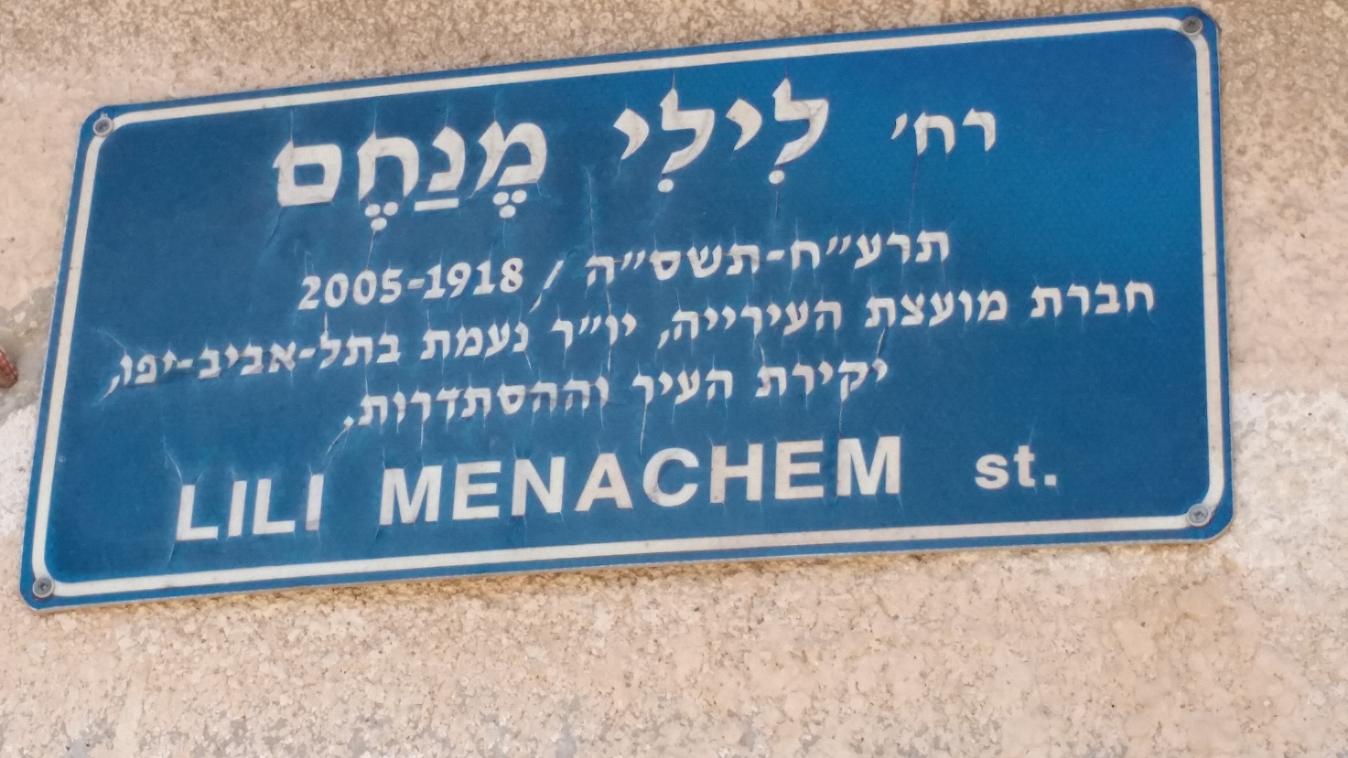 Name of street